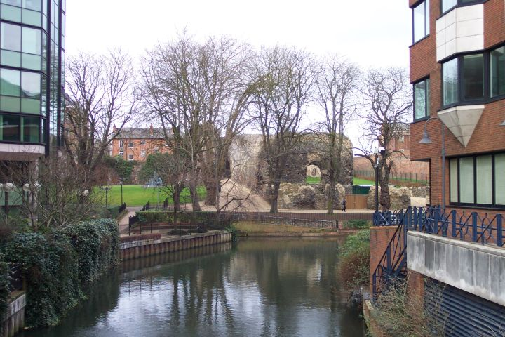 Reading Abbey and the River Kennet in the centre of Reading, Berkshire, England. For more information, see Wikipedia articles Reading Abbey or River Kennet.